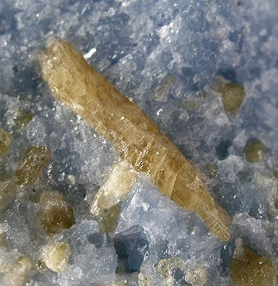 Ellestadite-(F), Calcite Locality: Commercial quarry, Sky Blue Hill, Crestmore quarries, Crestmore, Riverside County, California, USA (Locality at ) Size: 5.1 x 4.0 x 2.7 cm. A large crystal of yellow fluorine-rich ellestadite to 1.5 cm, trapped in beautiful blue calcite. These are common enough as microcrystalline material from this locality, but few crystals of such size (and in good condition) are found. Quite exceptional for the species. NOTE: Texas Industries is the current owner of Riverside Cement and the cement plant there has been shut down since a week before Christmas 2008.